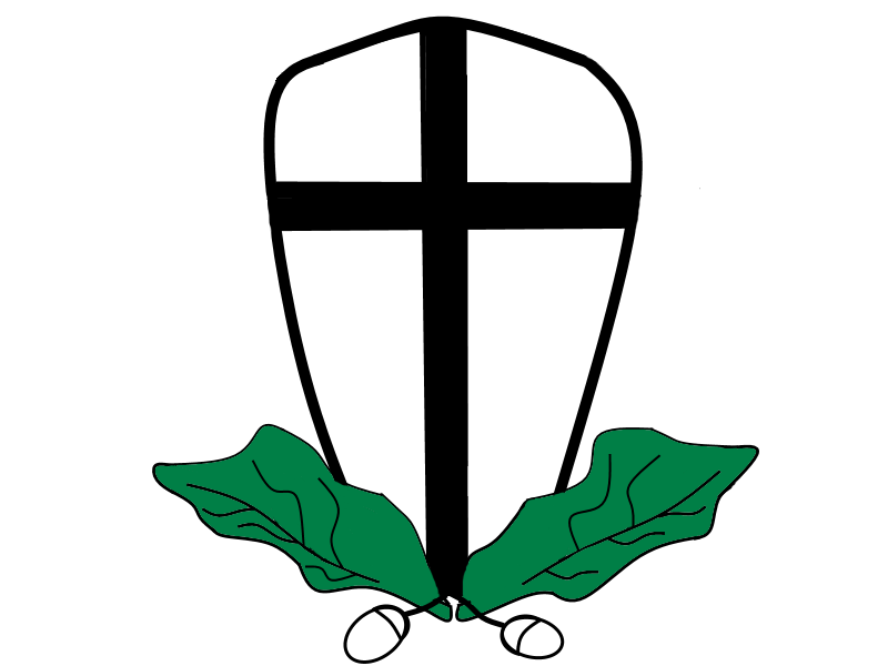 114. Jaeger Division, German Army, World War II